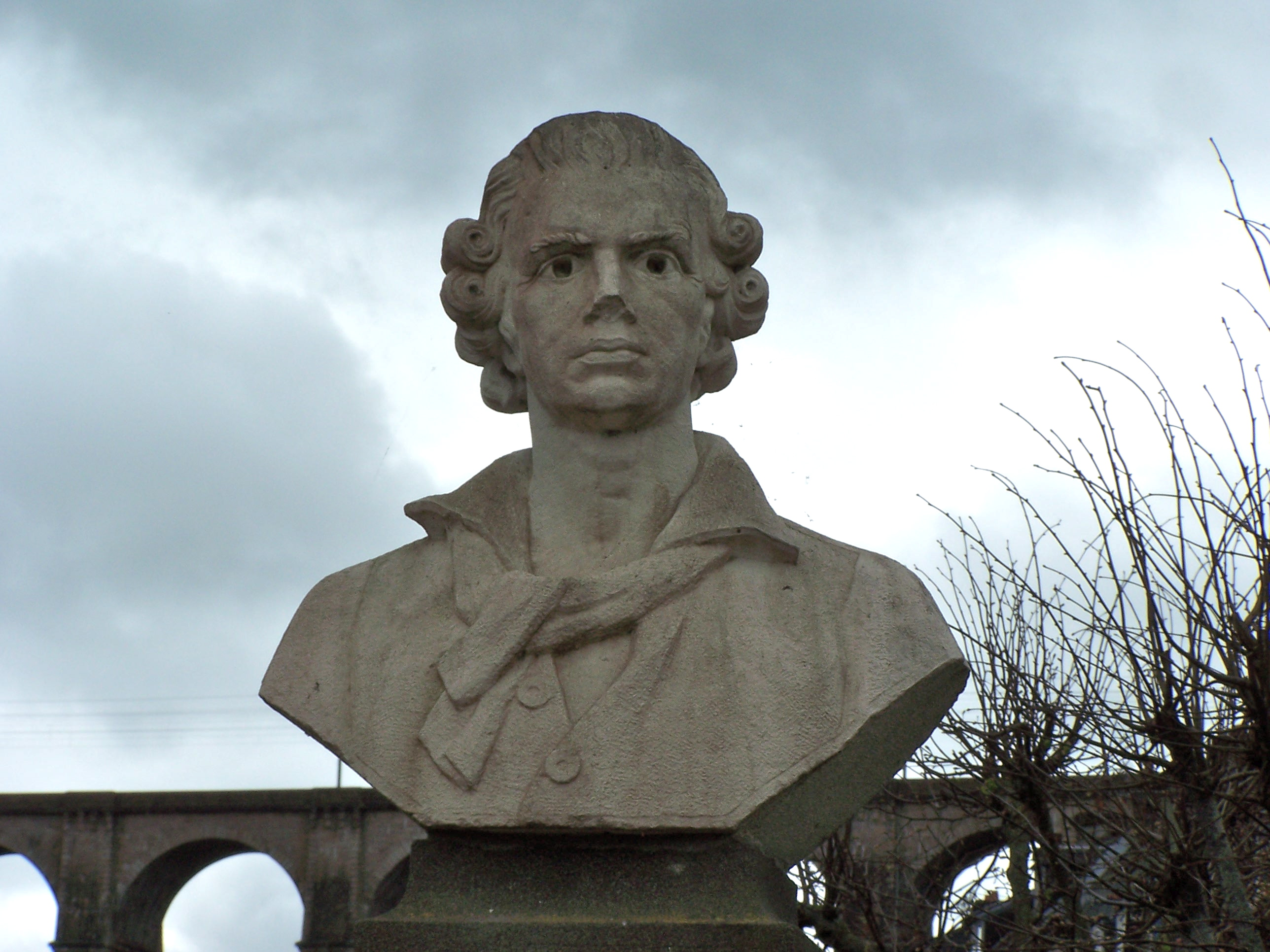 Buste du corsaire Charles Cornic (1731-1809) à Morlaix